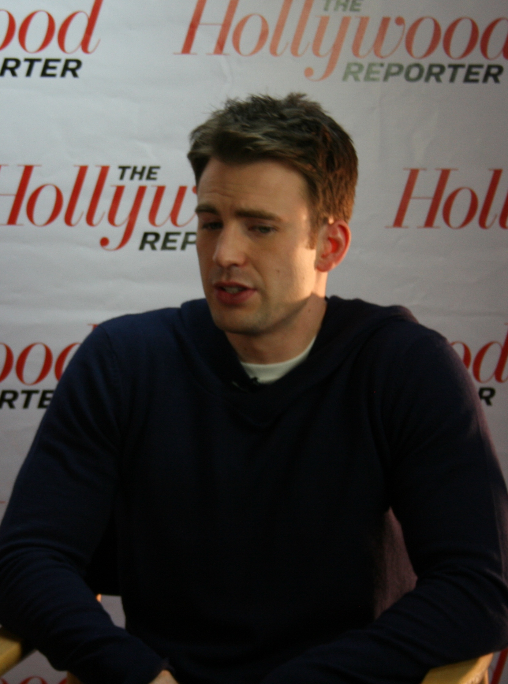 Comic-Con San Diego 2011 Impressions from Comic-Con International: San Diego 2011 Feel free to use any of my picures with credits.